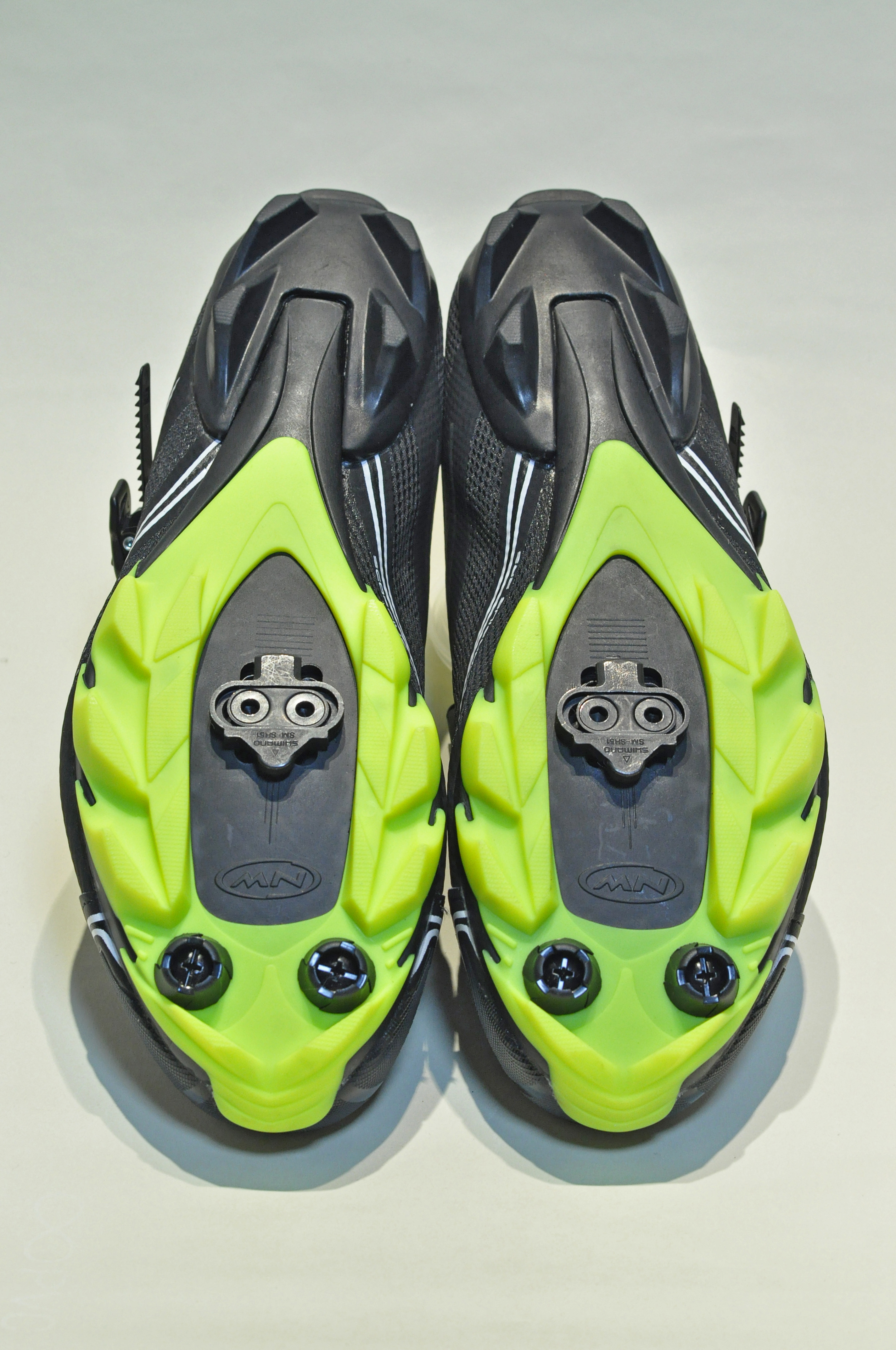 Northwave Scorpius SRS